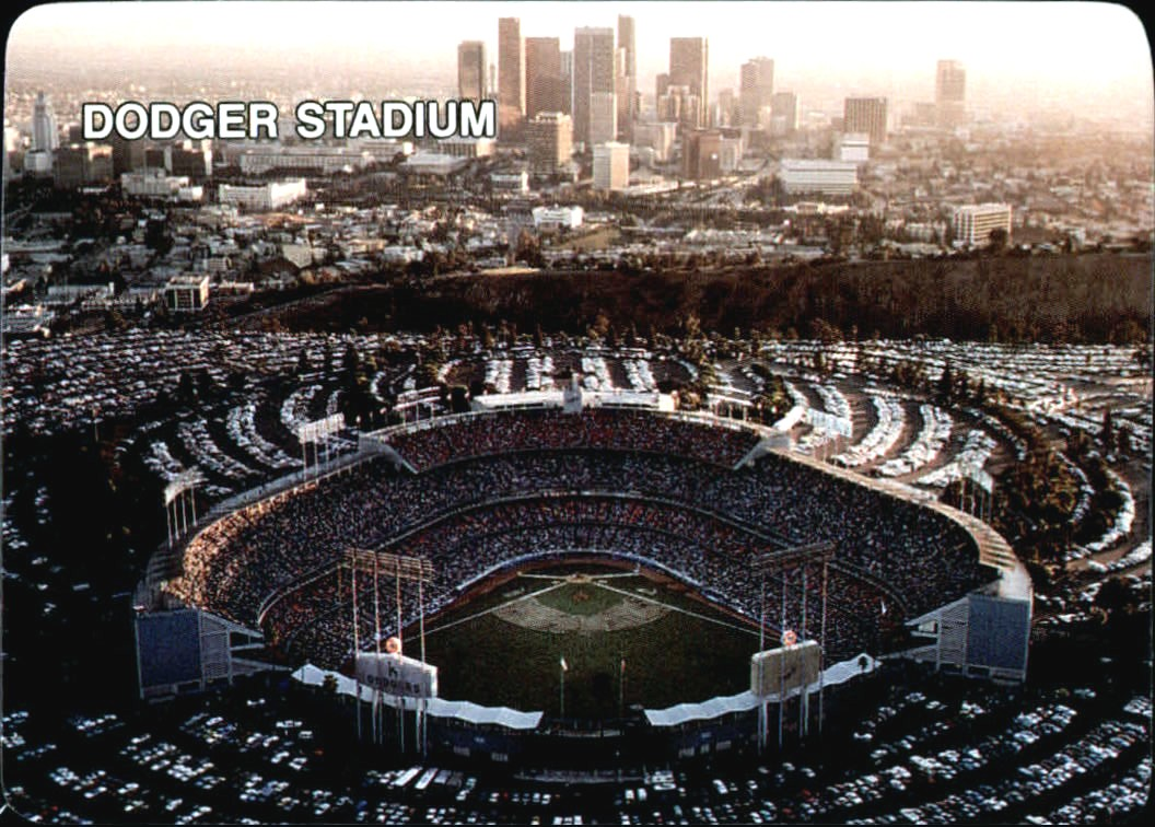 The checklist card of the 1987 Mother's Cookies Los Angeles Dodgers trading cards set. A photograph of Dodger Stadium in front of the downtown Los Angeles skyline appears on the front of the card and a checklist of all 28 of the trading cards in the set appears on the back. The card is numbered #28 in the set.